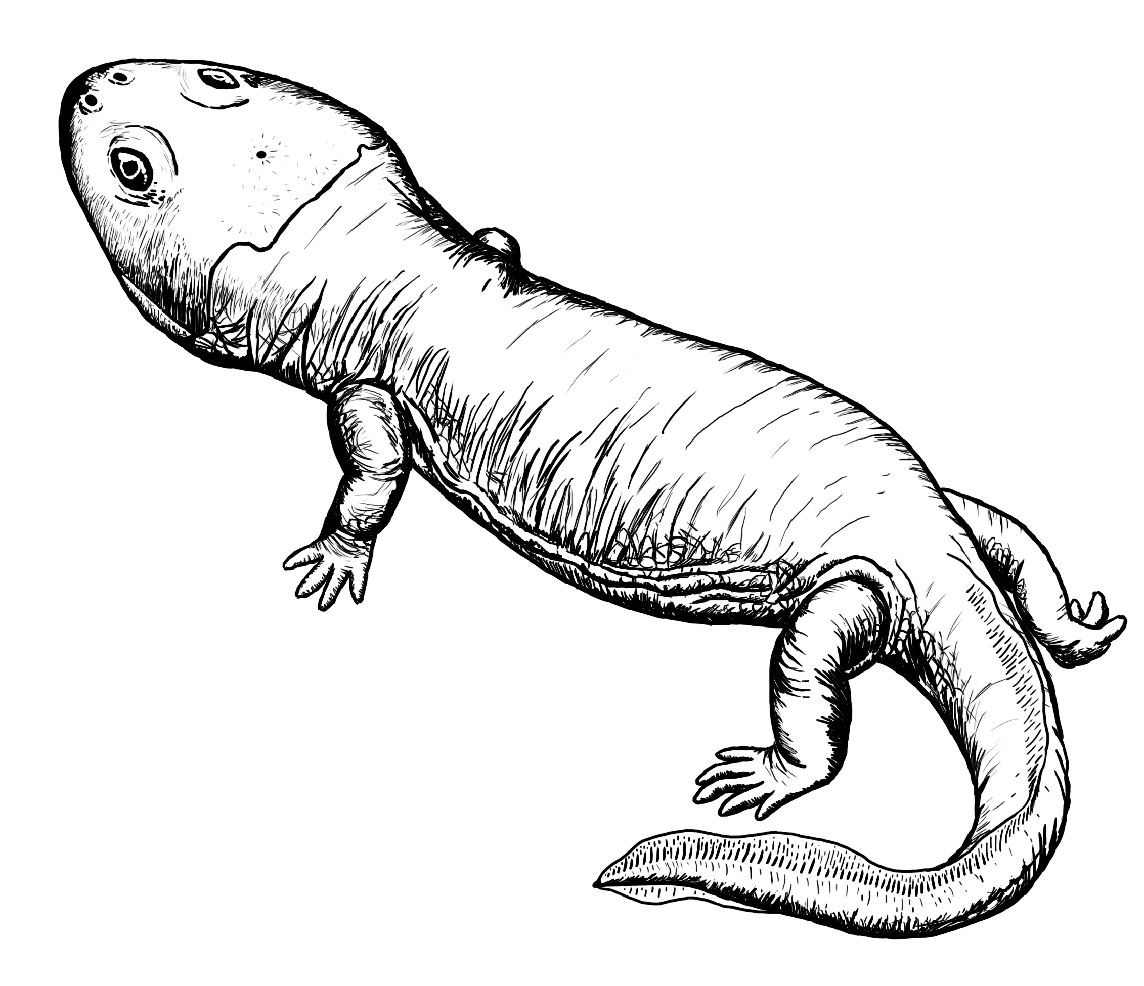 Life restoration of Banksiops townrowi. Based on Based on Figure 3 of "A phylogeny of the Brachyopoidea (Temnospondyli, Stereospondyli)" by Anne Warren and Claudia Marsicano (Journal of Vertebrate Paleontology 20(3): 462-483).